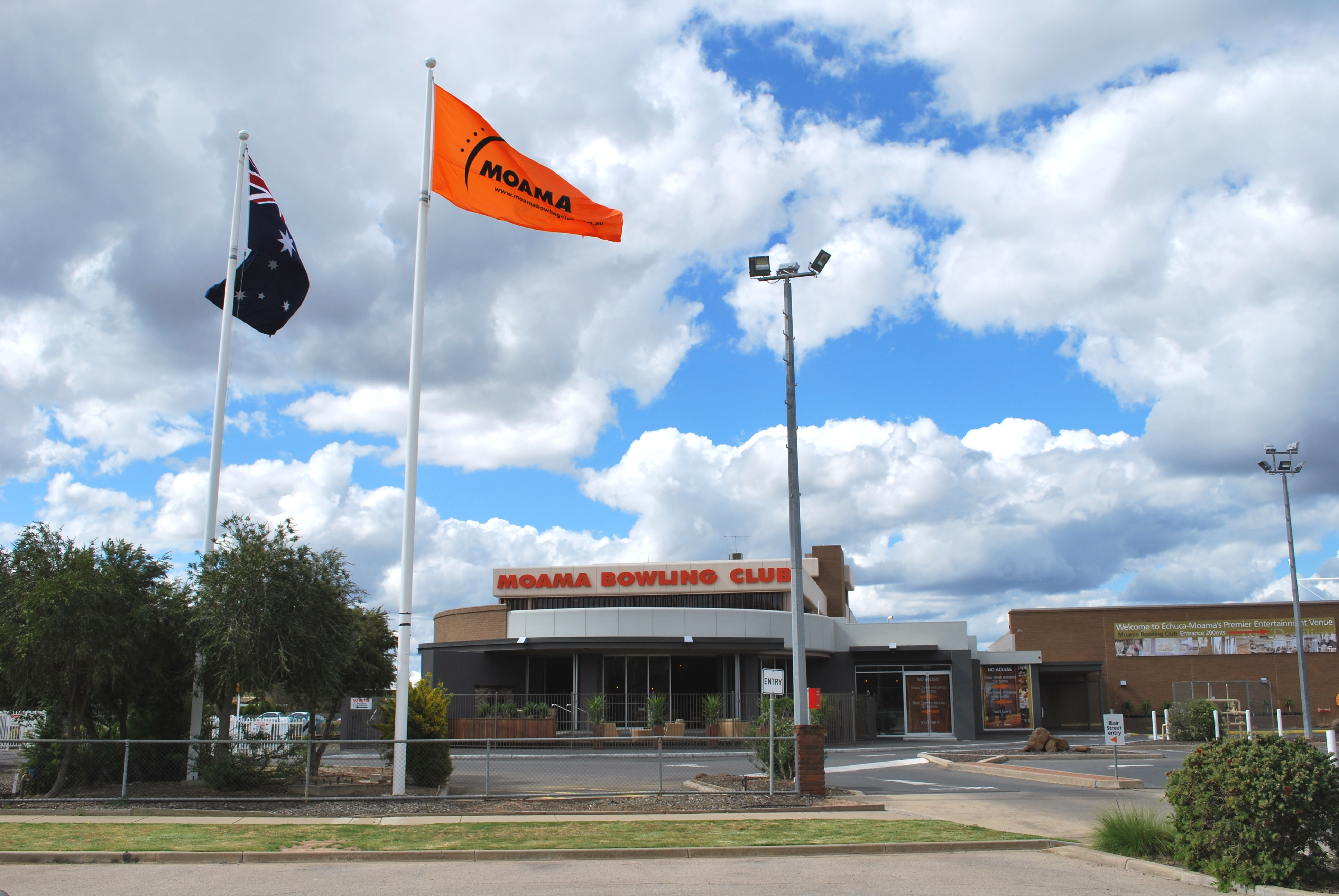 Moama Bowling Club, a large registered club in Moama, New South Wales